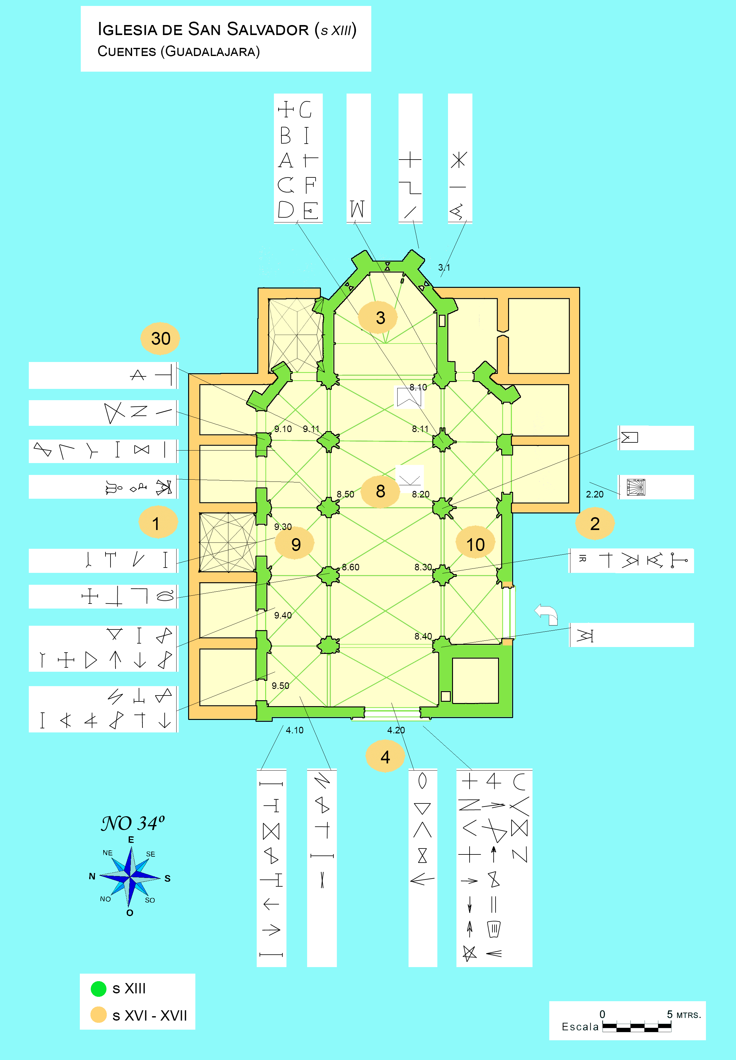 San Salvador church, CIFUENTES (España), s XIII. Plan approx. and stonecutter marks.